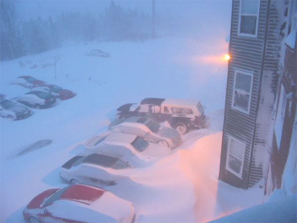 A picture of Halifax after the winter storm White Juan early in the morning.